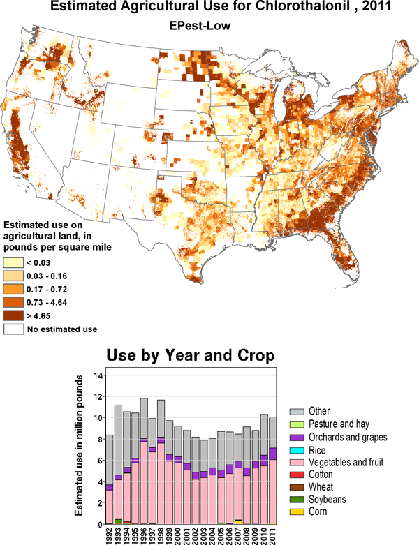 Chlorothalonil map of use, USA, 2011 (estimated)